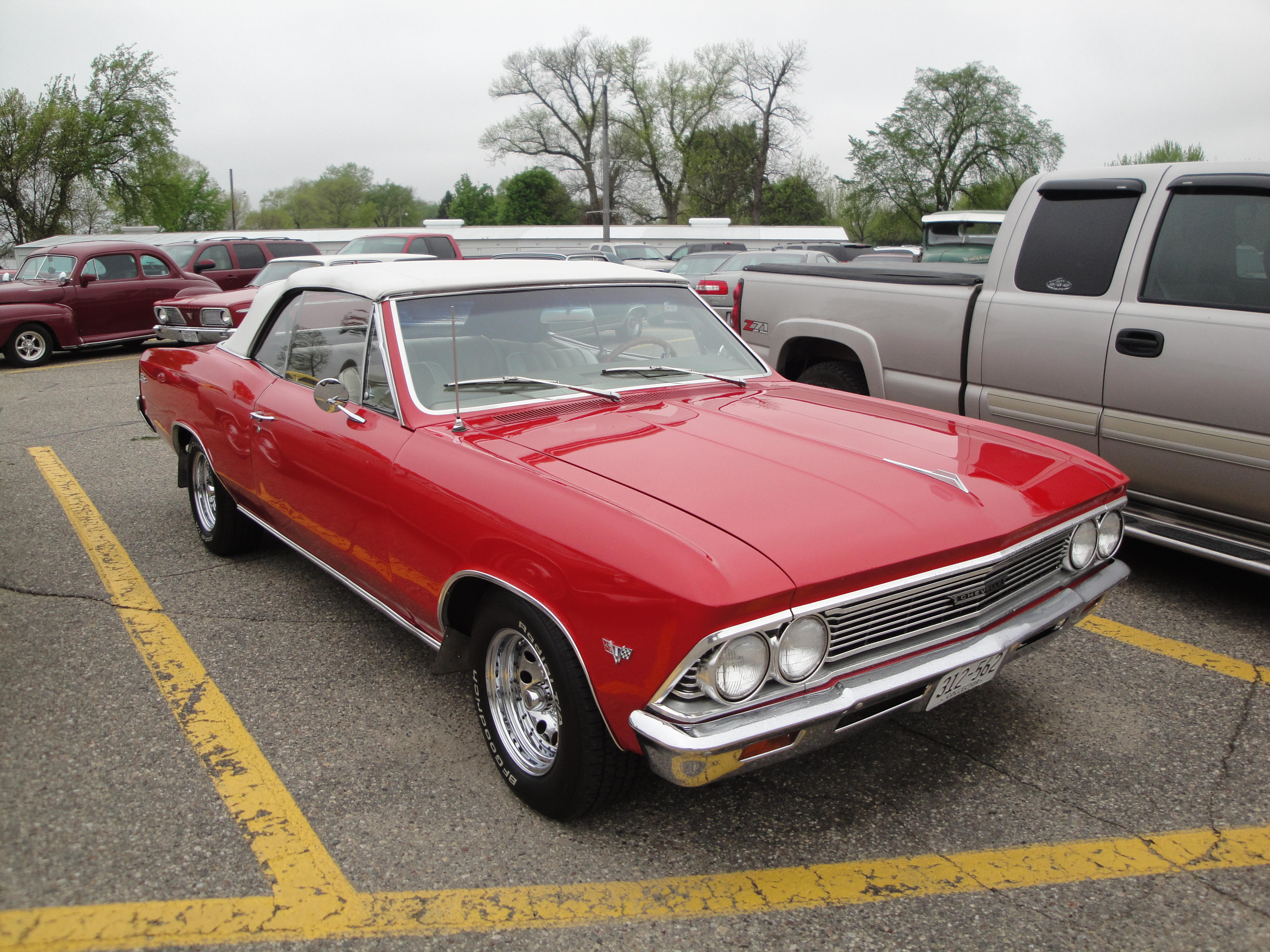 Car Buffs' Breakfast May 2012 Peter's on Lake Ripley